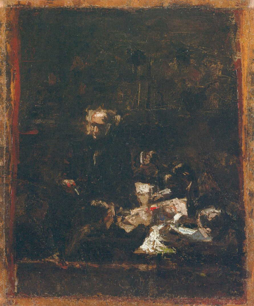 Composition study The Gross Clinic by Thomas Eakins